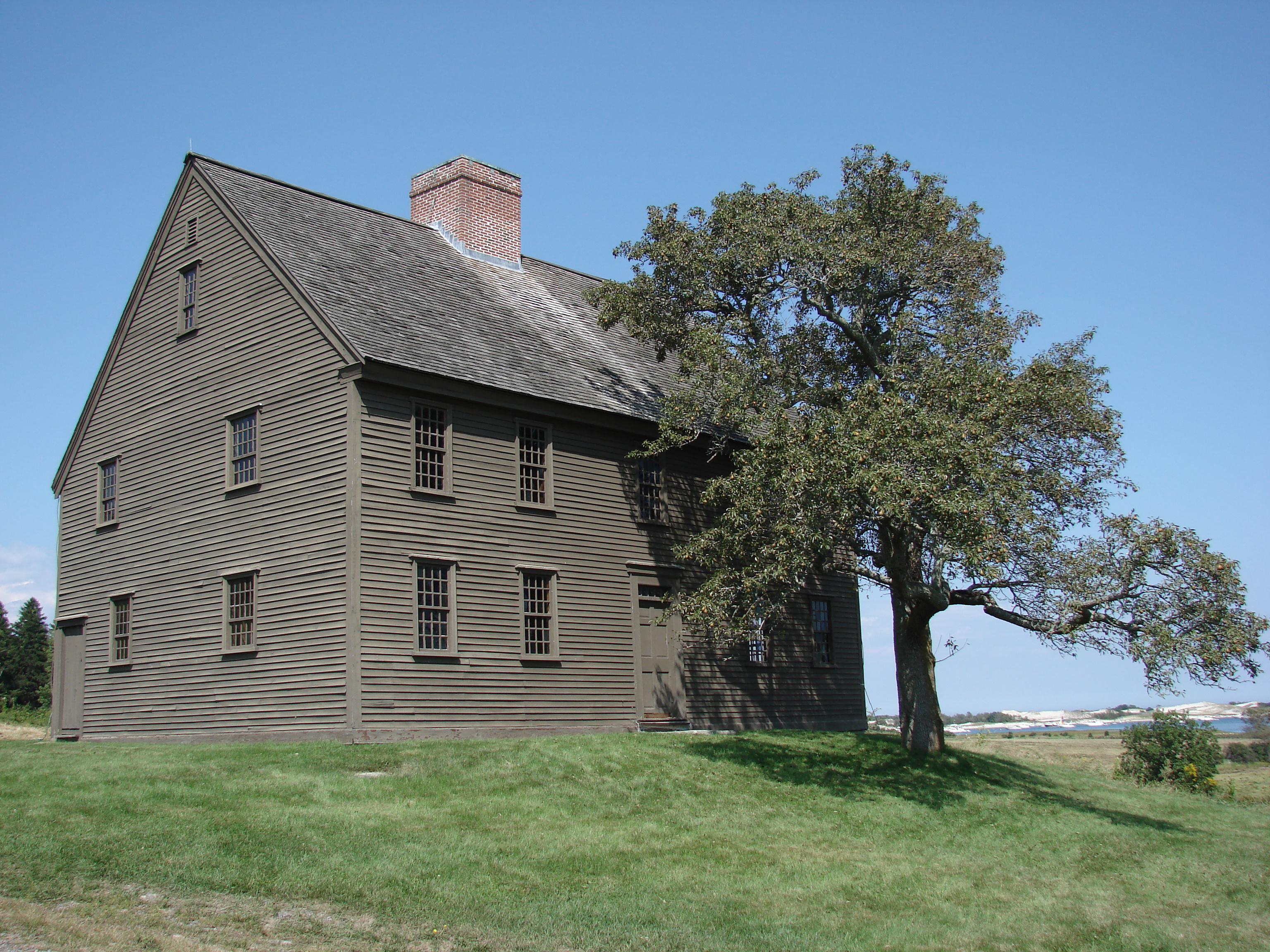 The Choate House on Choate Island, also known as Hog Island, in Essex, Massachusetts.